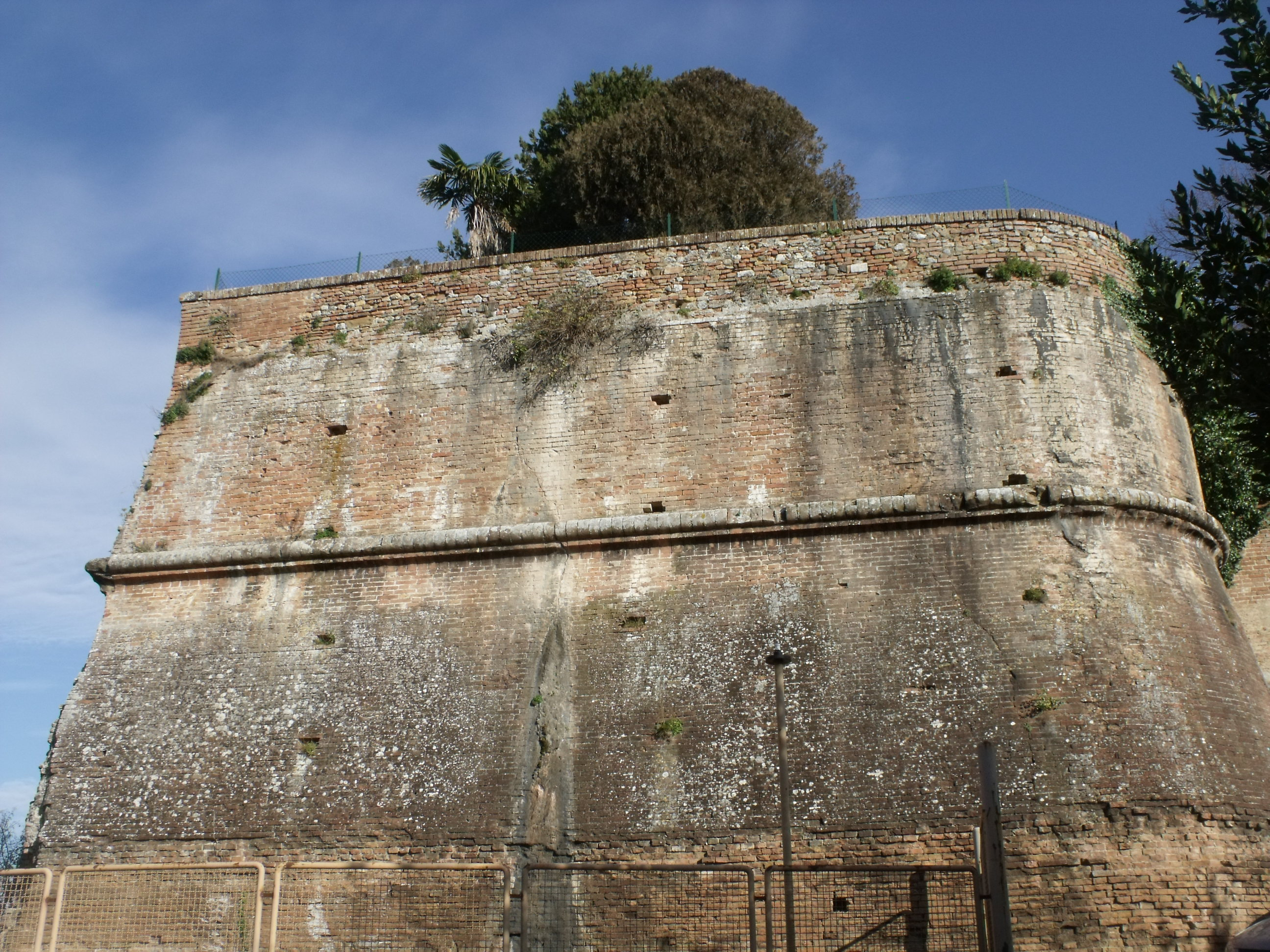 Bastion Fortino di Porta Laterina, Siena